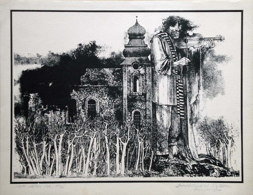 János Pető (Hungarian painter): In fugitive time. Lithography. (Own property)